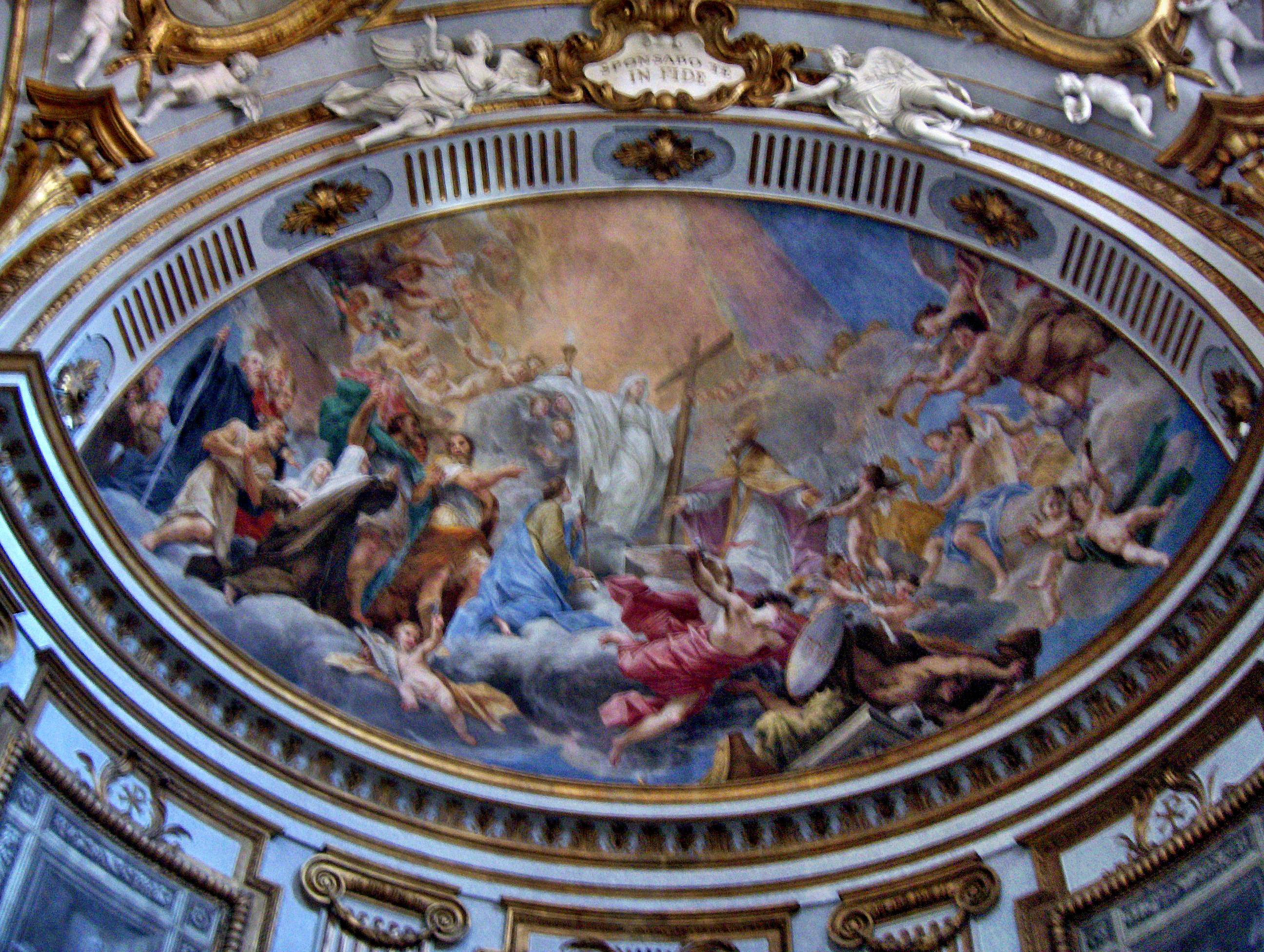 St Felician entrusting Foligno to religion by Francesco Mancini (1679-1758) ; fresco on the ceiling of the apse in the Cathedral of San Feliciano, Foligno, Italy